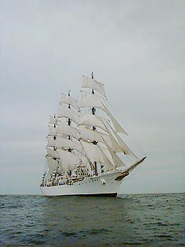 The Fragata Libertad in full sail